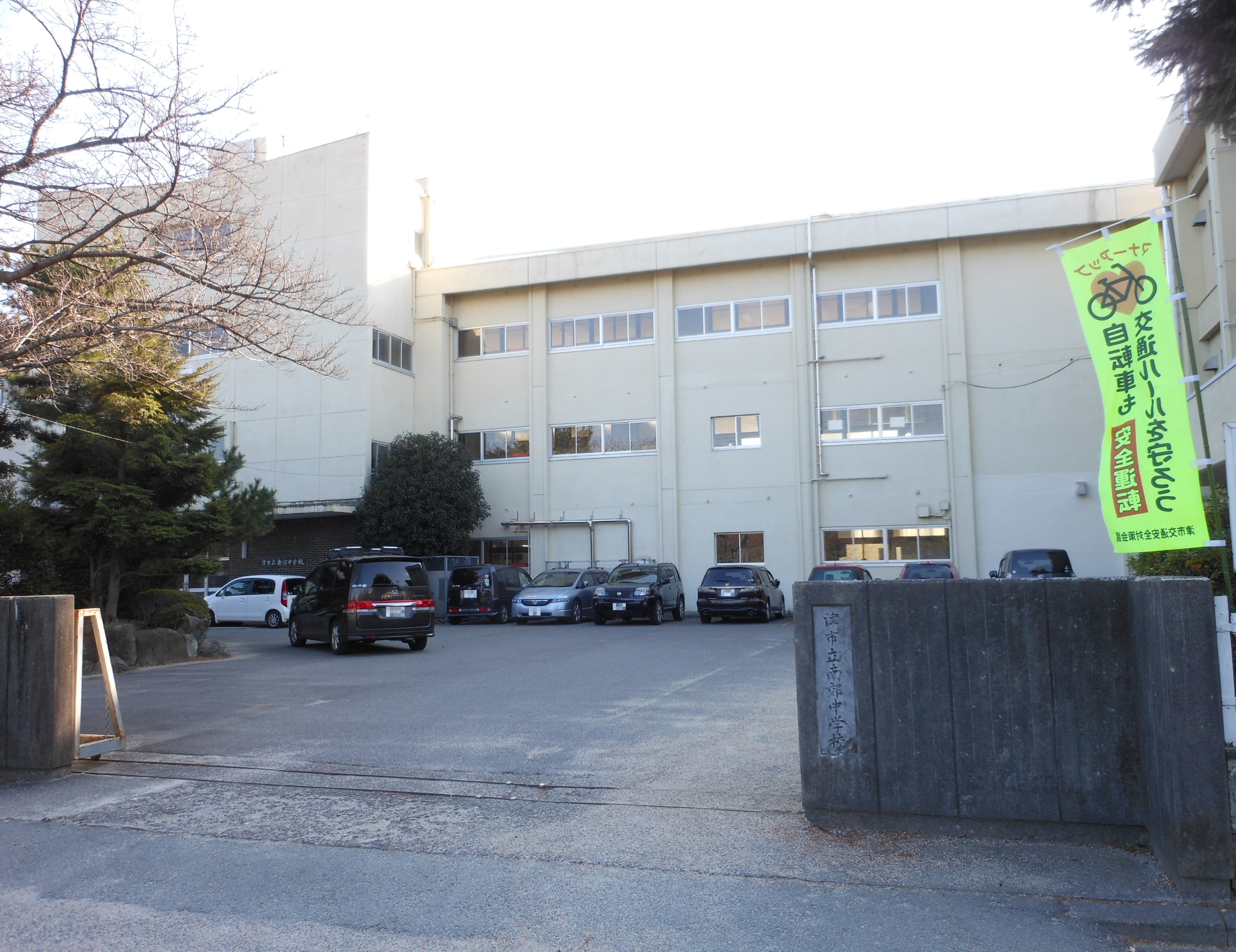 This is the Tsu city Nanko Lower Secondary School in Mie, Japan.